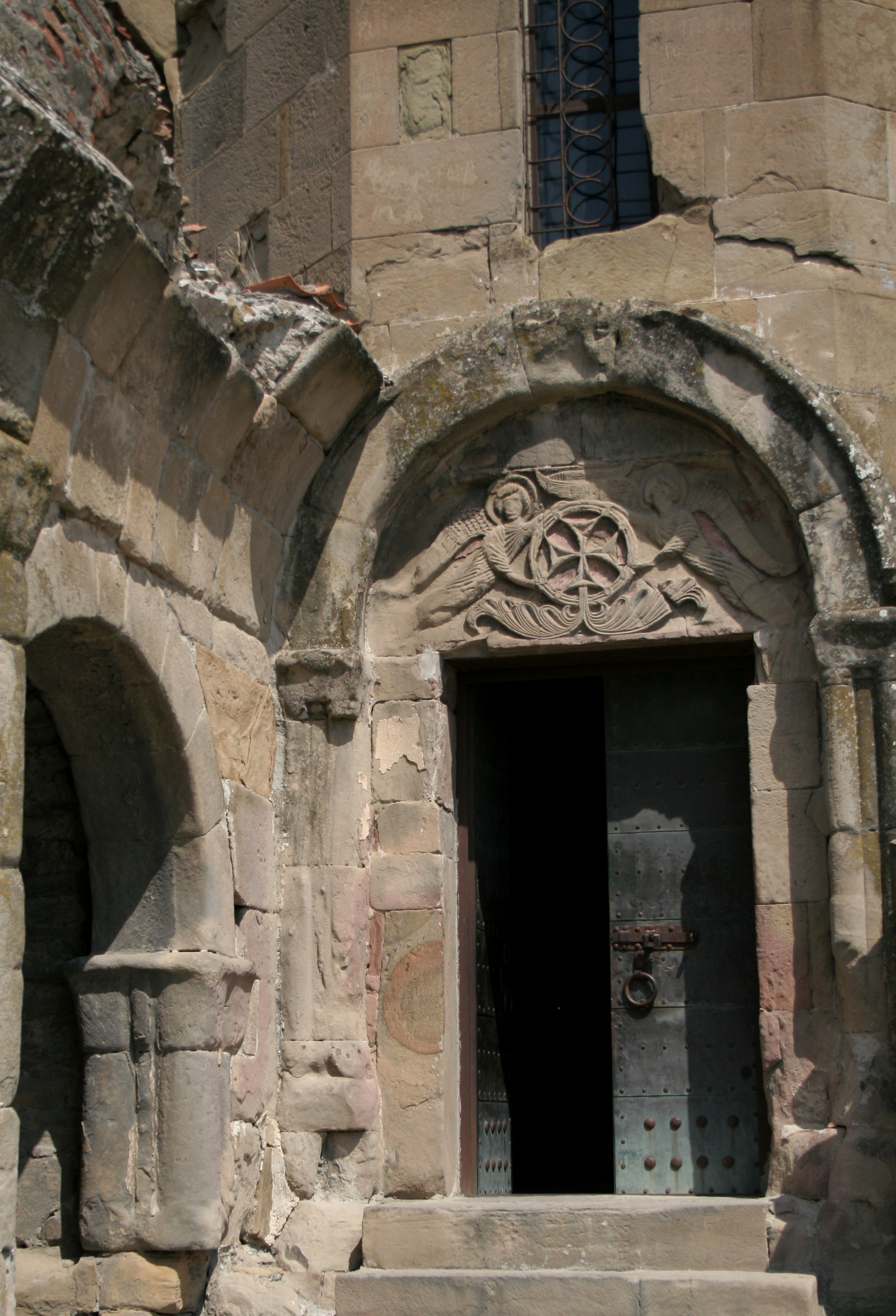 Door to Jvari church